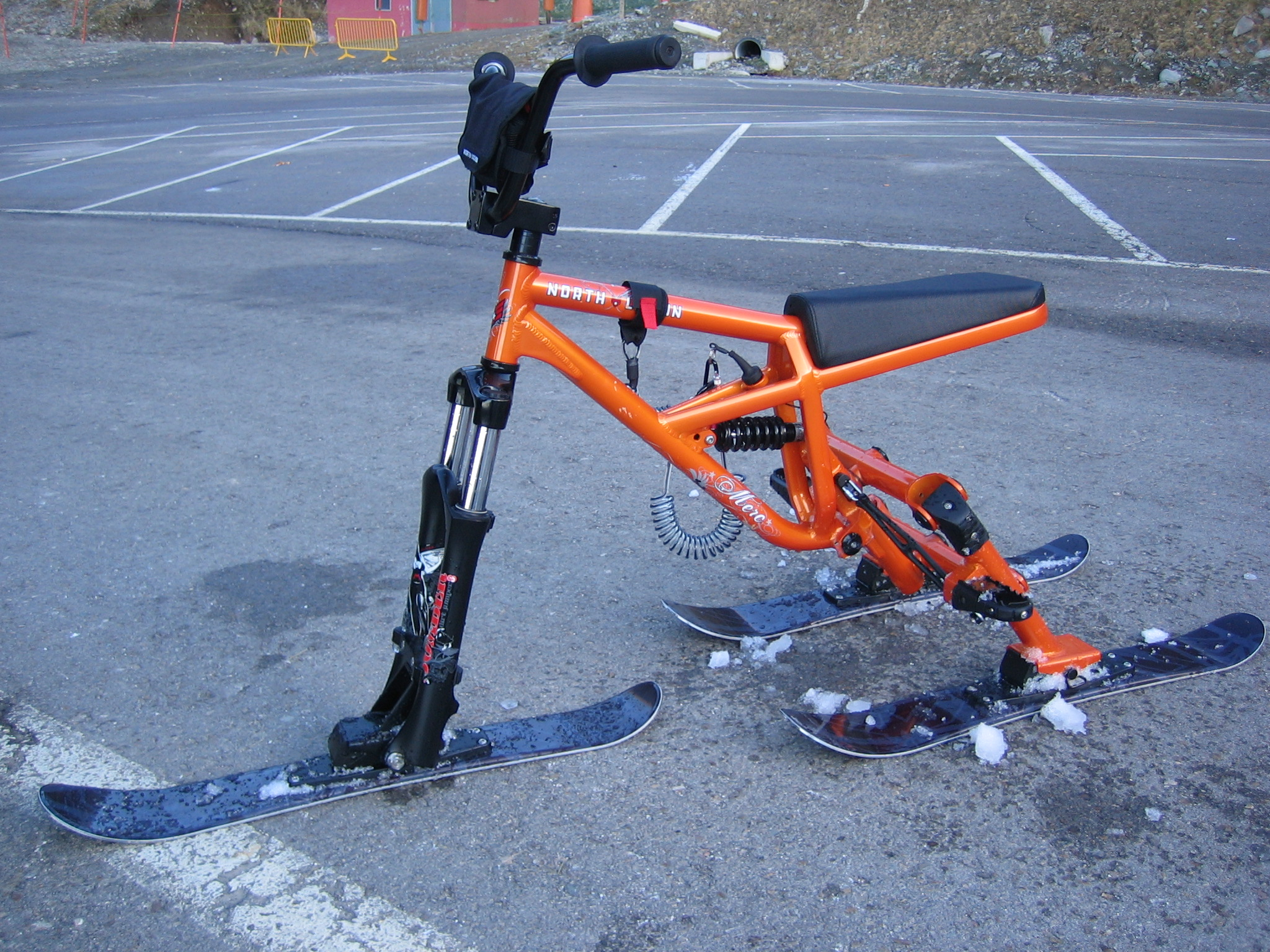 SMX North Legion Merc Orange